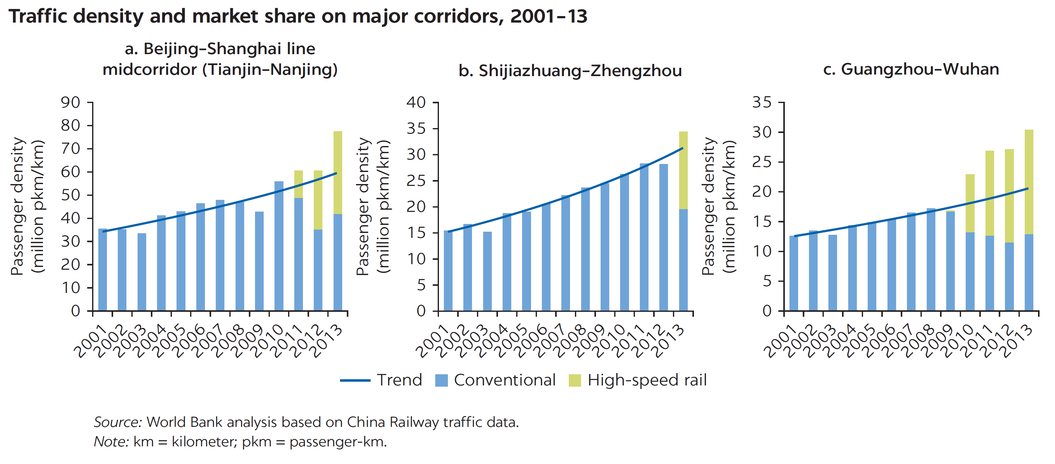 Traffic density and market share on major corridors, 2001–13